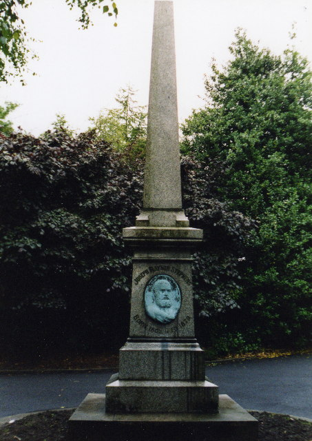 Stephens Memorial, Stamford Park, Stalybridge. Memorial to radical Christian minister Joseph Rayner Stephens, 1805-1879. Having been disciplined by the Wesleyan Connexion in 1834 for advocating separation of Church and State, he resigned and set up his own churches in Stalybridge and Ashton-under-Lyne, and became involved in the Chartist movement and the cause of factory reform. Sentenced to 18 months imprisonment in 1839 after some incendiary speeches.